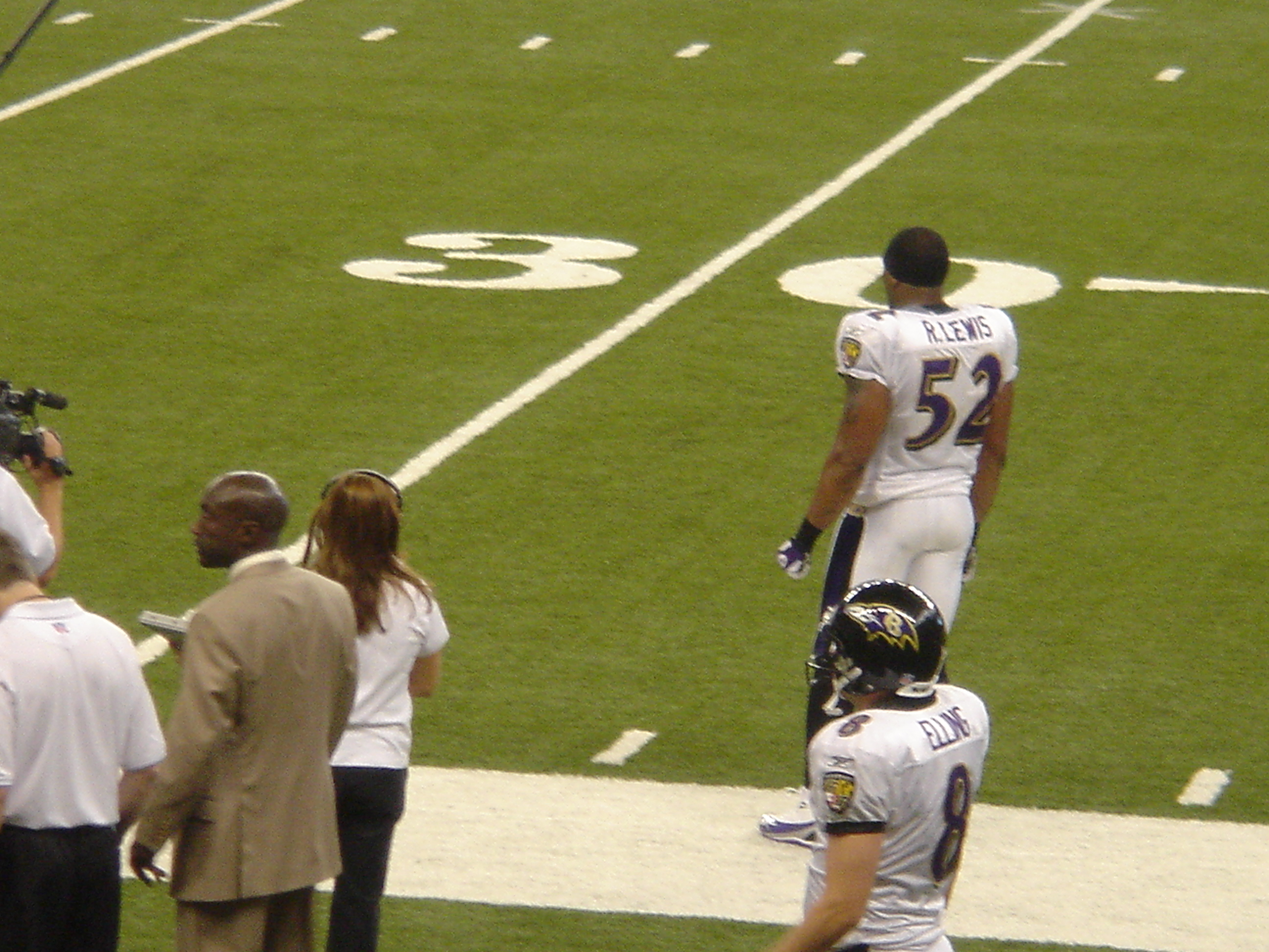 Lewis roaming the sidelines in a 2005 game at Ford Field in Detroit. I took this photo on October 9, 2005 at Ford Field in Detroit, Michigan. October 9, 2005 @ Ford Field.